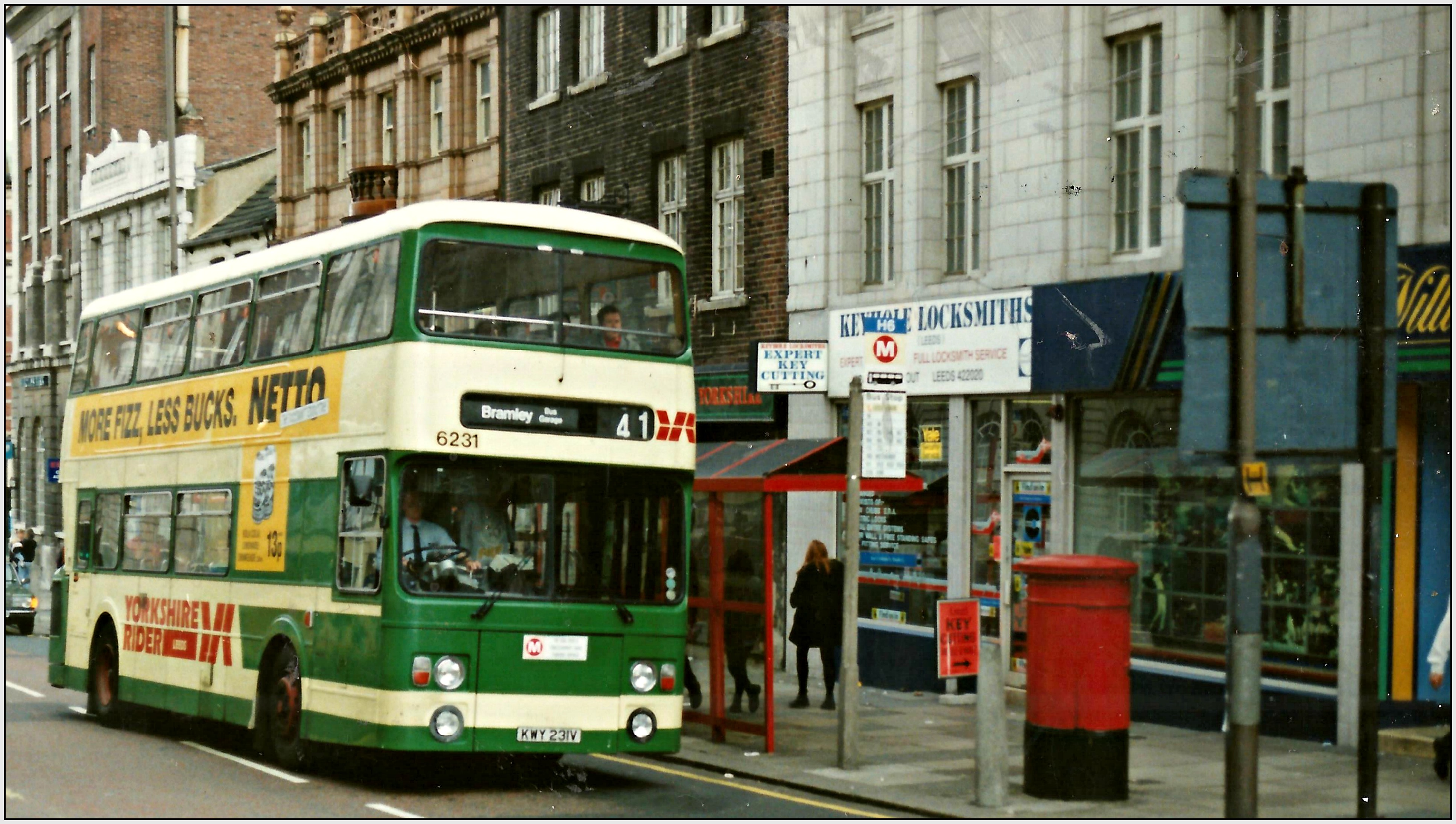 Roe bodied Leyland Atlantean KWY 231V was delivered to West Yorkshire PTE in June 1980 as number 6231, by the time I saw it in Leeds in 1993 it was a YorkshireRider bus.